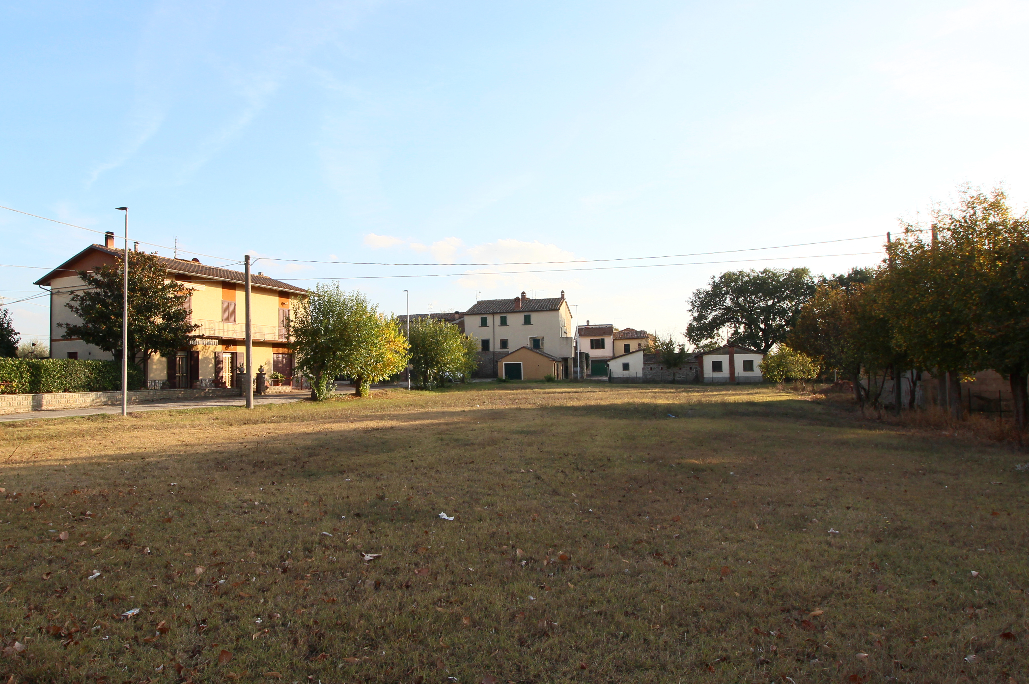 Fratta-Santa Caterina, hamlet of Cortona, Province of Arezzo, Tuscany, Italy